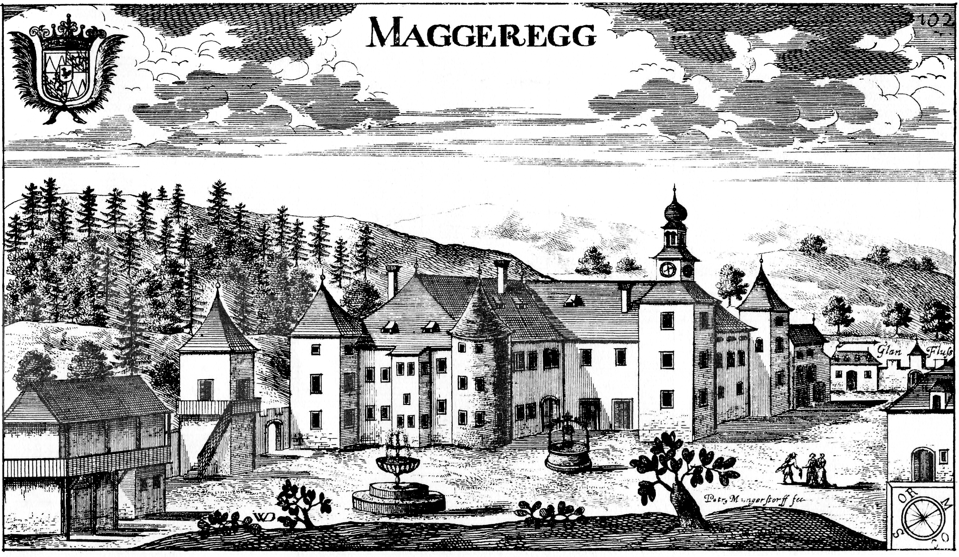 Copper engraving of the Castle of Mageregg in the Carinthian capital of Klagenfurt in Carinthia / Austria / European Union.